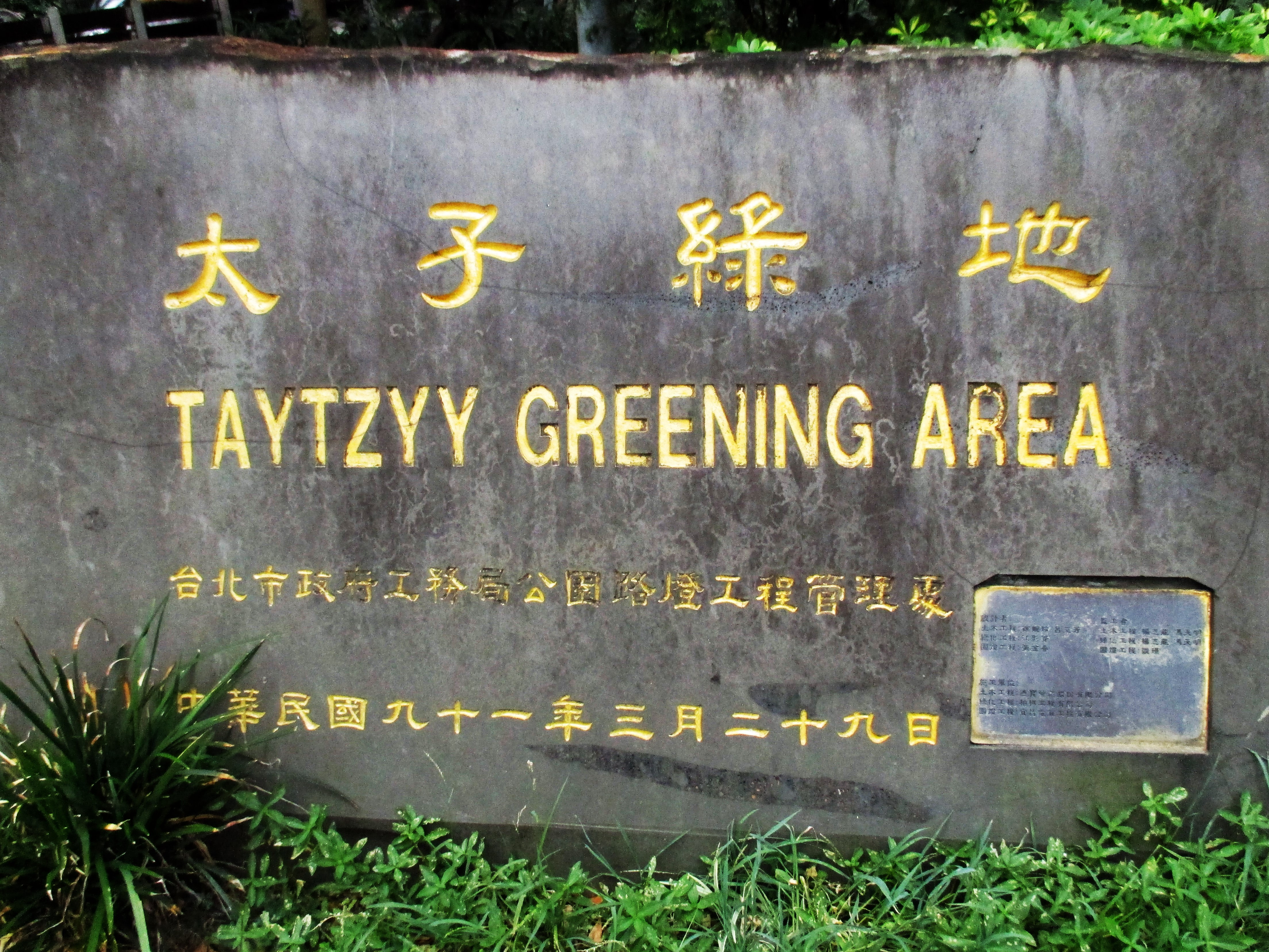 Gwoyeu Romatzyh romanizatin of Chinese on Taytzyy Greening Area sign by Parks and Street Lights Office, Public Works Department, Taipei City Government. In Hanyu Pinyin Taytzyy would be "Taizi".